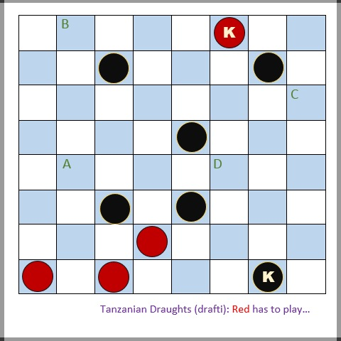 Possible ways, red piece can capture black pieces in Tanzanian draughts. Kiswahili: Jinsi kete nyekundu inavyoweza kuchukua kete nyeusi katika drafti.